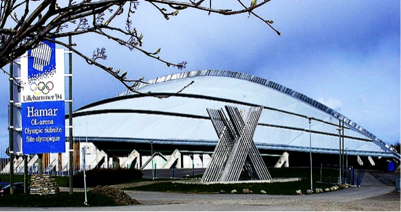 Picture of Vikingskipet, formerly known as the Hamar Olympic Hall. Speed skating competitions were held in this venue in February 1994.